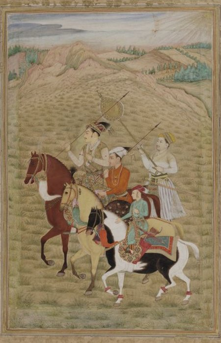 Description: Shuja, Aurangzeb, and Murad Bakhsh mounted on horses in a landscape with mountains and a village in the background.